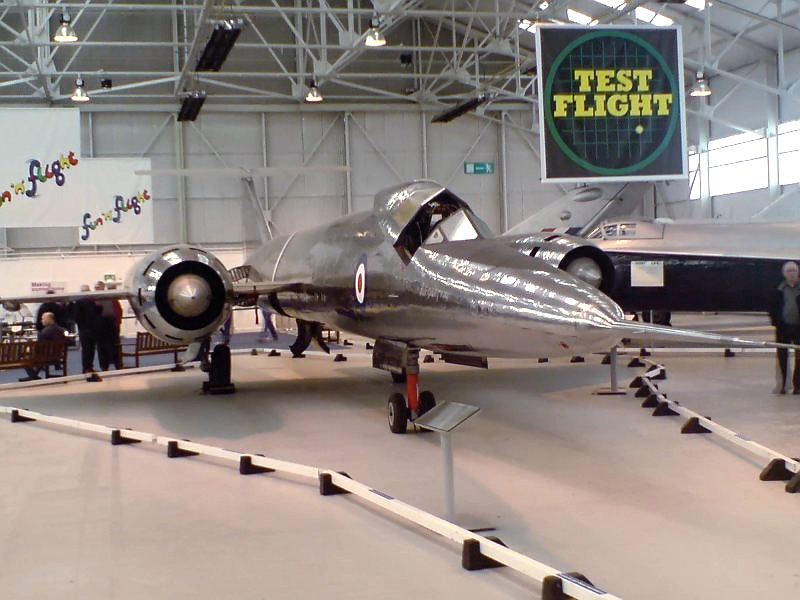 Bristol Type 188 on display at the RAF Museum Cosford on February 23, 2007. Photograph by Neil Tipton.